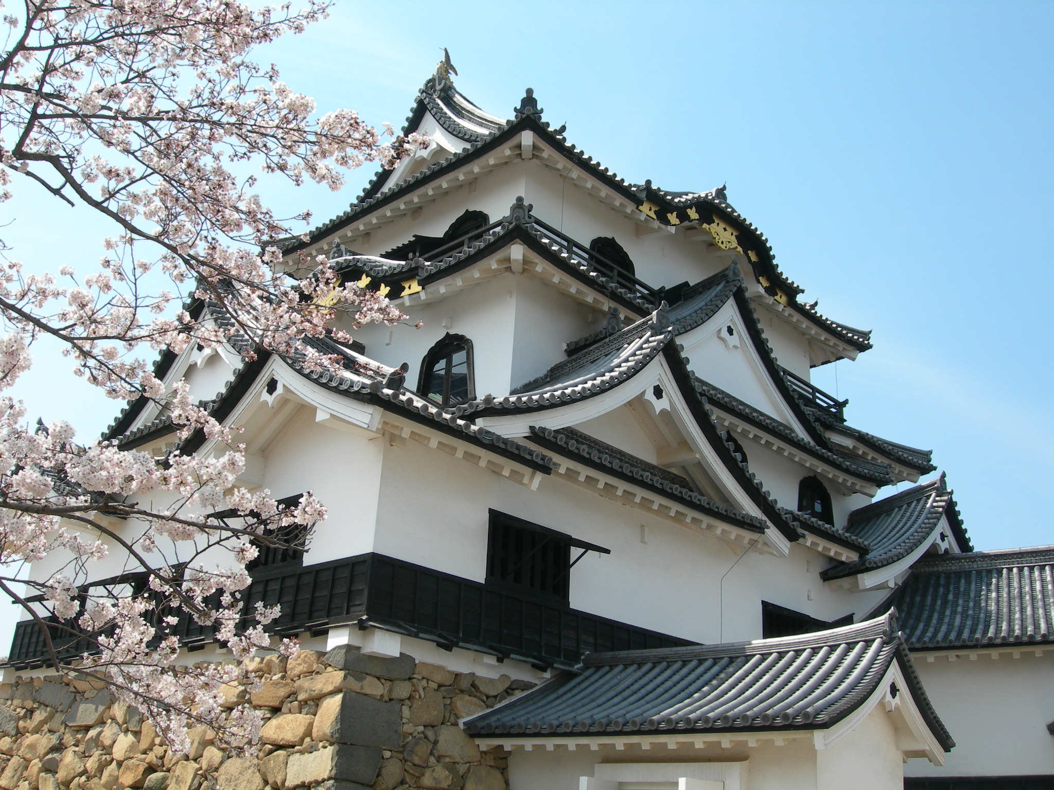 Sakura from Hikone Castle. taken in 2007.